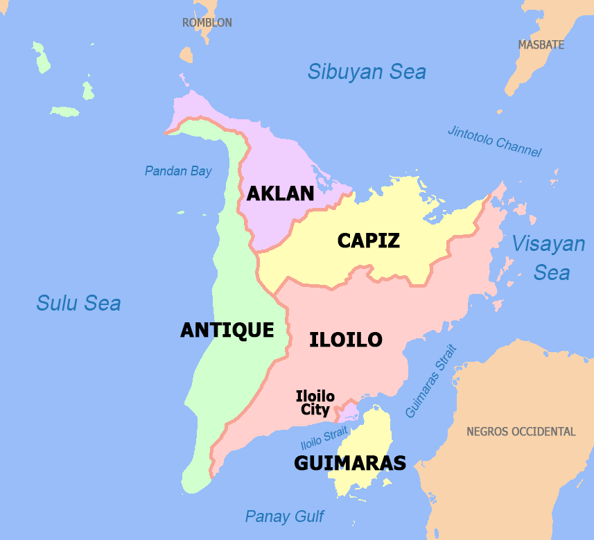 Western Visayas